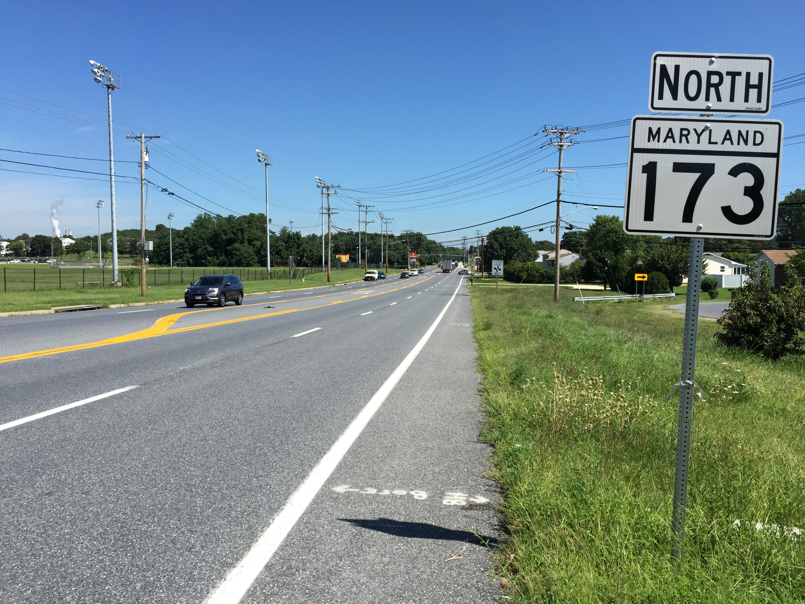 View north along Maryland State Route 173 (Fort Smallwood Road) just north of Edwin Raynor Boulevard in Pasadena, Anne Arundel County, Maryland